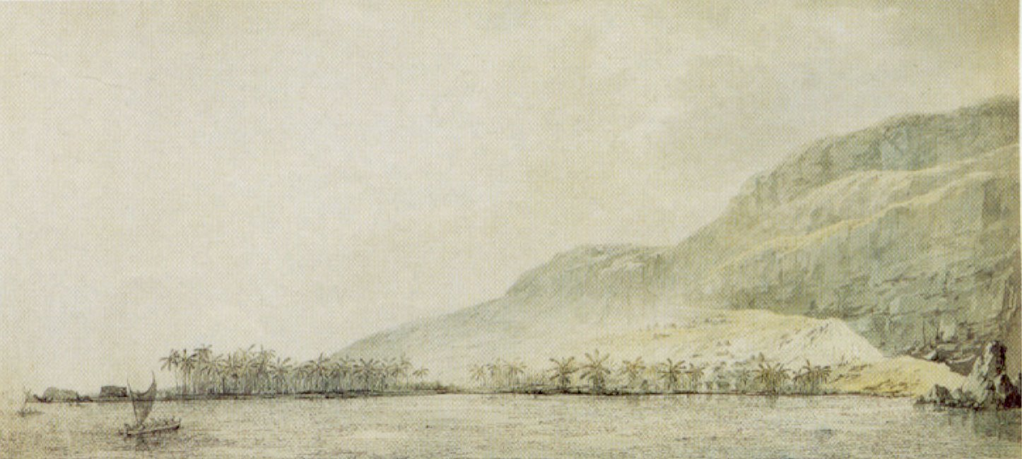 Kealakekua Bay and the Village Kowroaa, 1779 ink wash and watercolor by John Webber, Honolulu Museum of Art Native nameHonolulu Museum of ArtLocationHonolulu, Hawaii, USACoordinates21° 18′ 14″ N, 157° 50′ 54″ W Established1922Websitehonolulumuseum.orgAuthority control VIAF: 297612039 ISNI: 0000 0004 4661 5836 SUDOC: 185174566